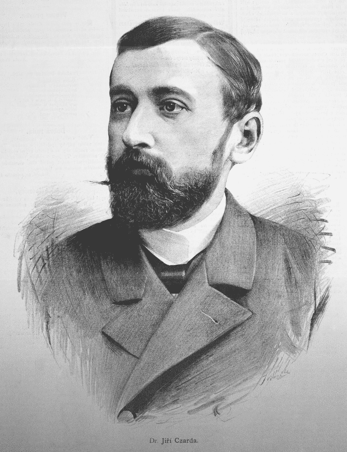 Portrait of Jiří Czarda (1851 - 1885), Czech physician.